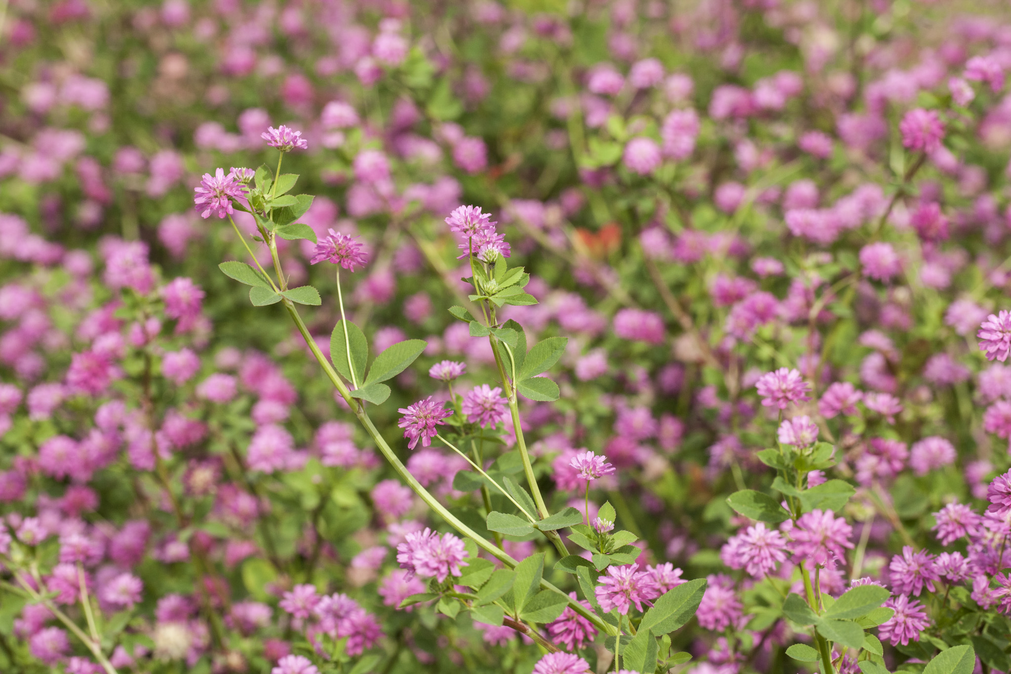 One of the species present at the pasture.